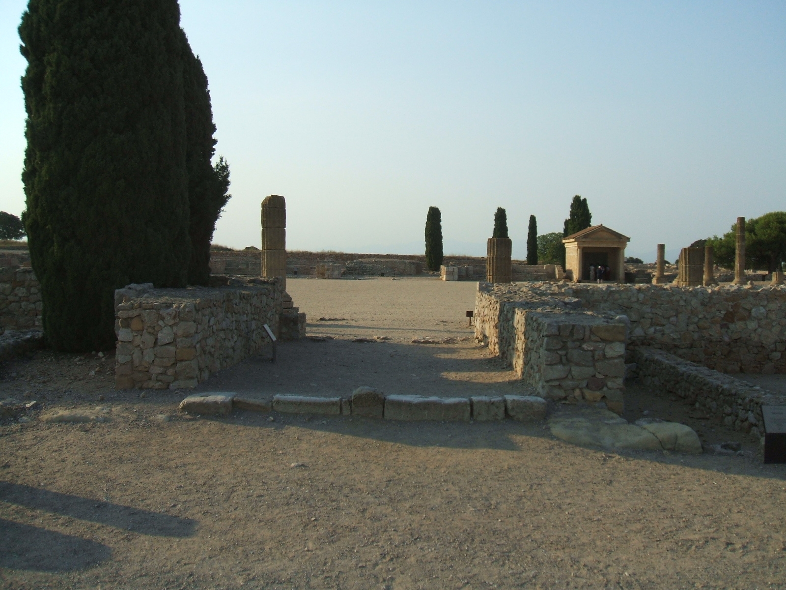 Empuries Archaeological Site (Catalunya, Spain) : Roman Town ; Forum : northern view from the Cardo Maximus (Main North-South Street).